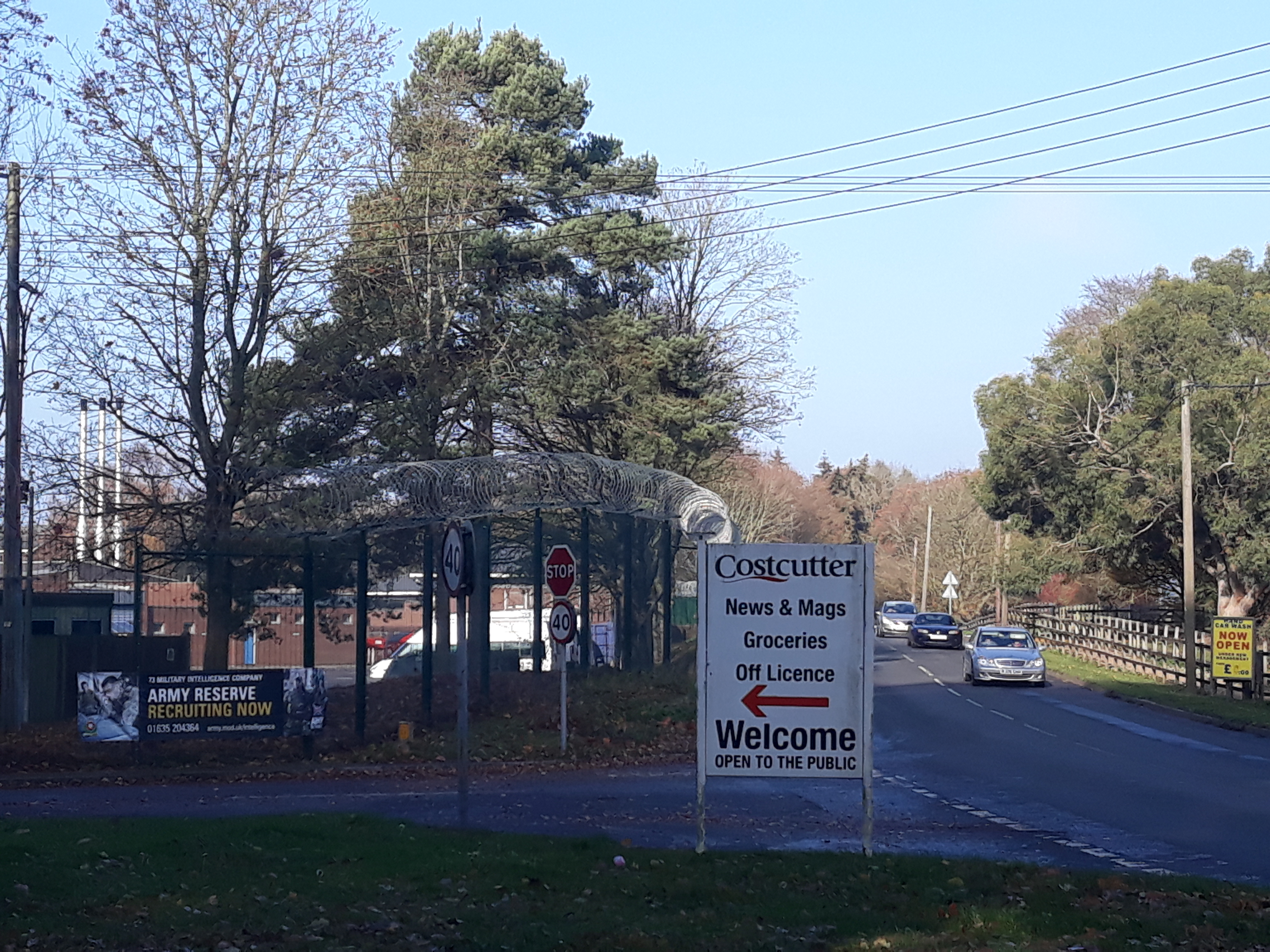 Entrance to Denison Barracks, Hermitage, Berkshire, England, with recruiting poster for 73 Military Intelligence Company Army Reserve.